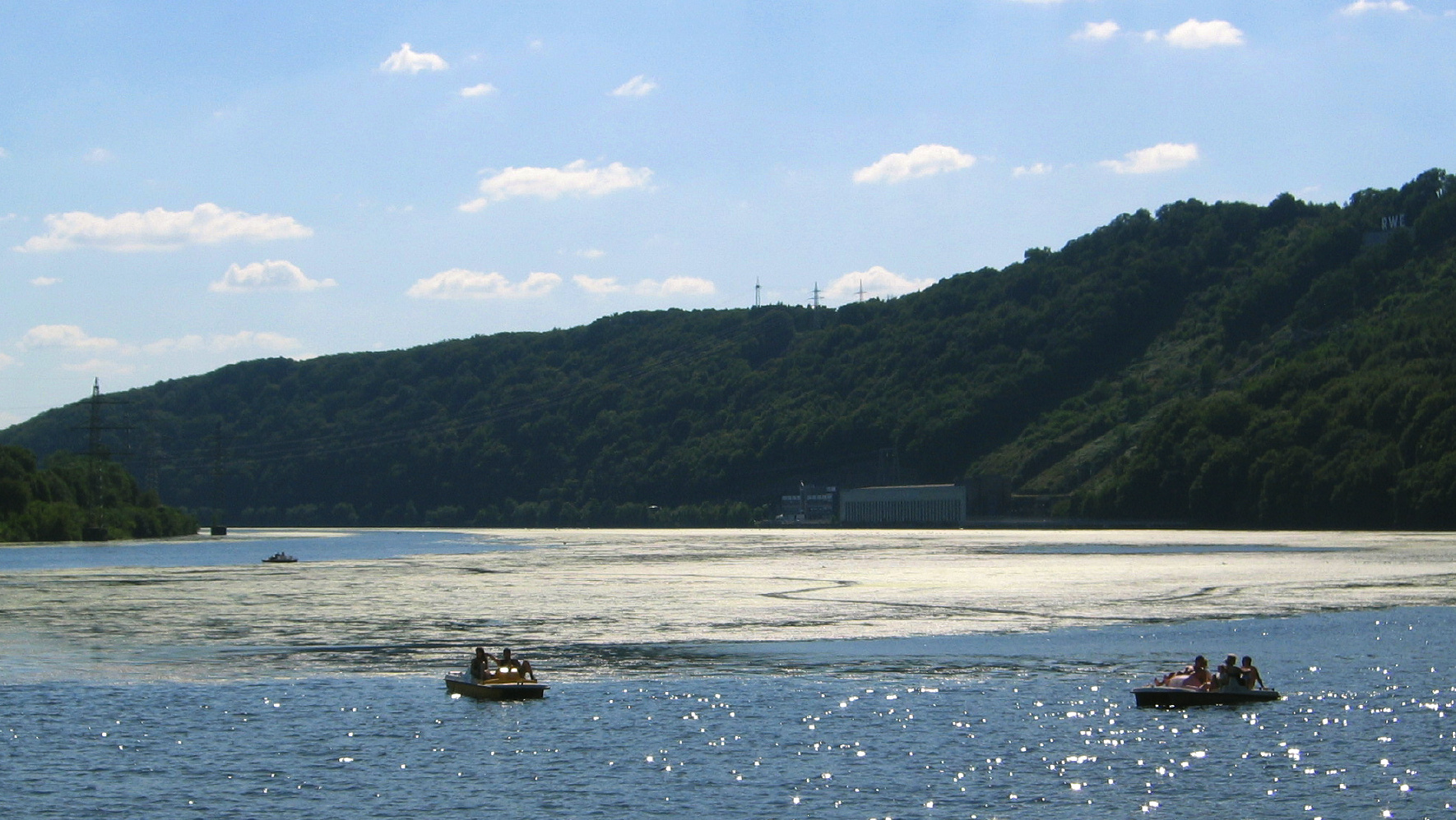 Masses of Elodea canadensis and Elodea nuttallii, Hengsteysee, North Rhine-Westphalia, Germany.